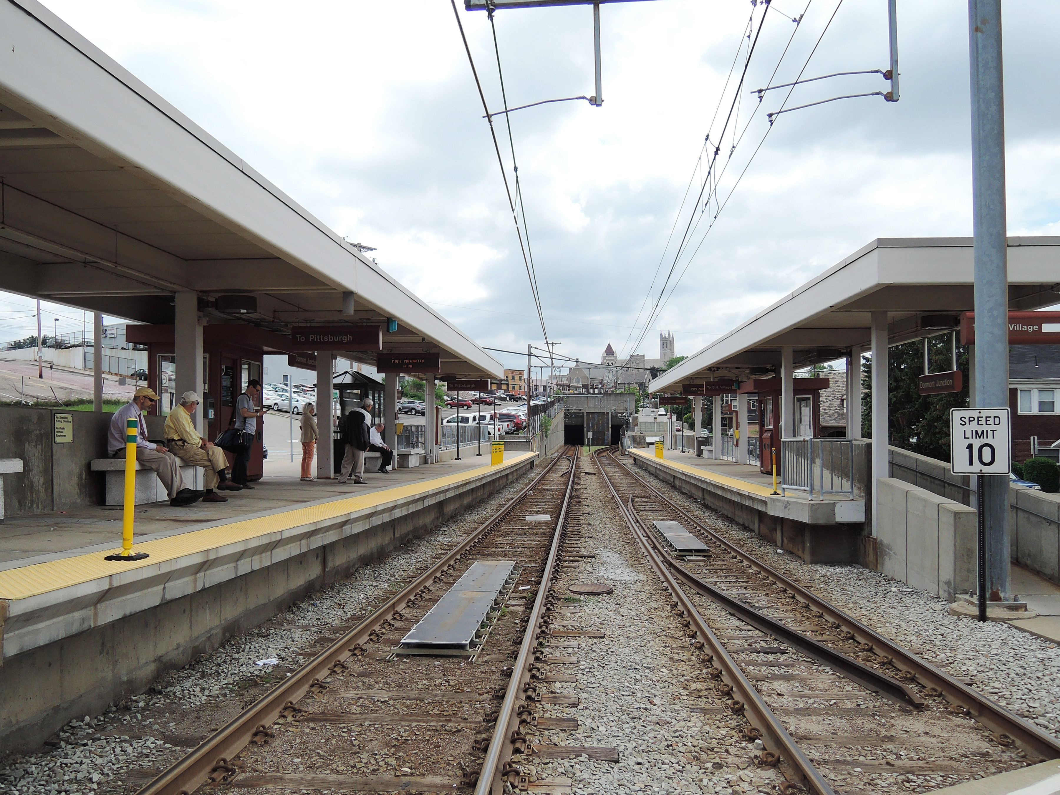 Looking north at station on a cloudy day.